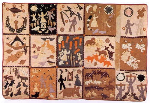 Photo of Harriet Powers' 1898 bible quilt by Rhonda Leigh Willers of the University of Wisconsin - River Falls and obtained from African-American Artists